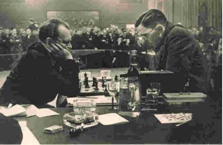 World Chess Championship 1937. Alekhine (left) and Euwe.